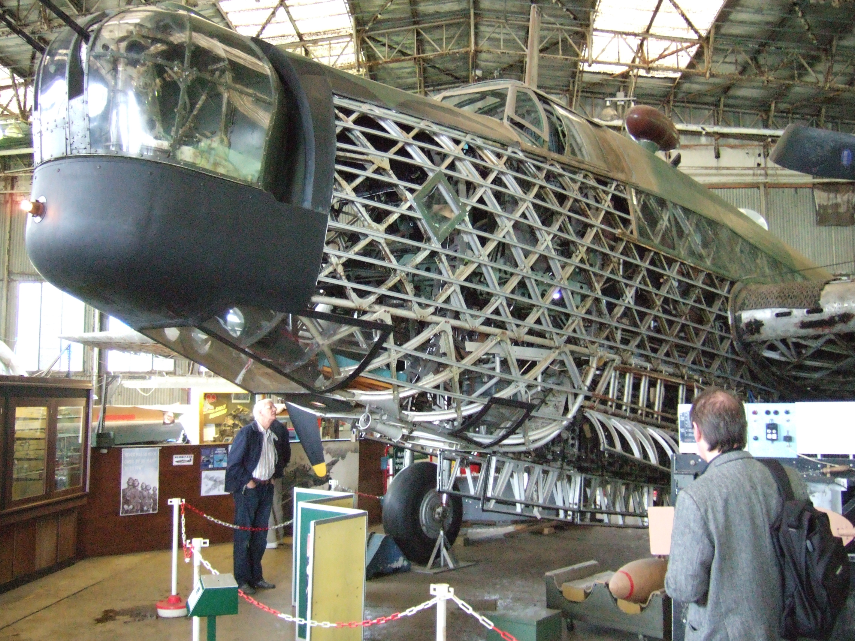 Pulled from a Loch 40 years after the crew bailed out.